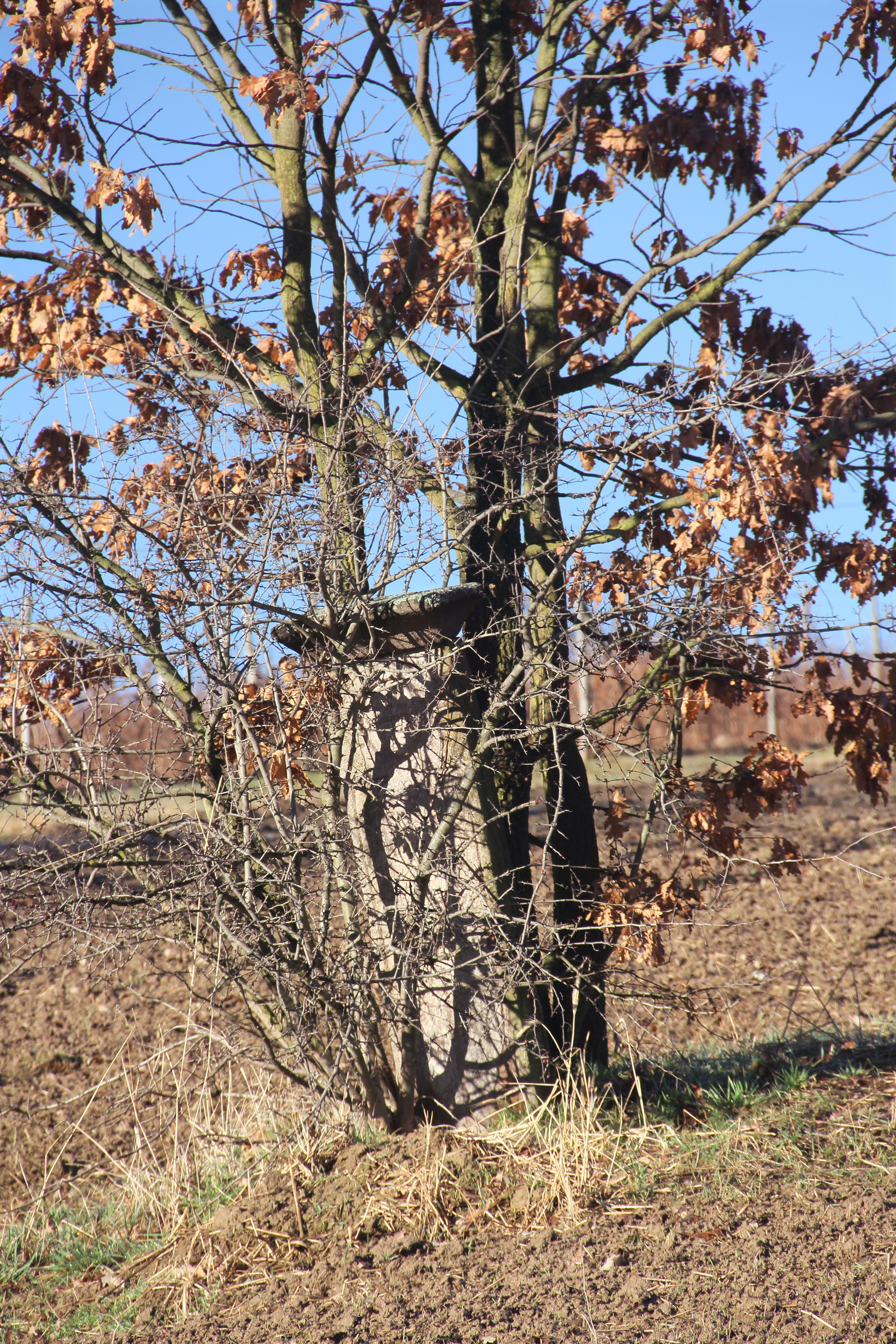 Roadside tombstone erected in memory of Ranko Ilic. It is located in the village of Svrackovci (the municipality of Gornji Milanovac), Serbia.